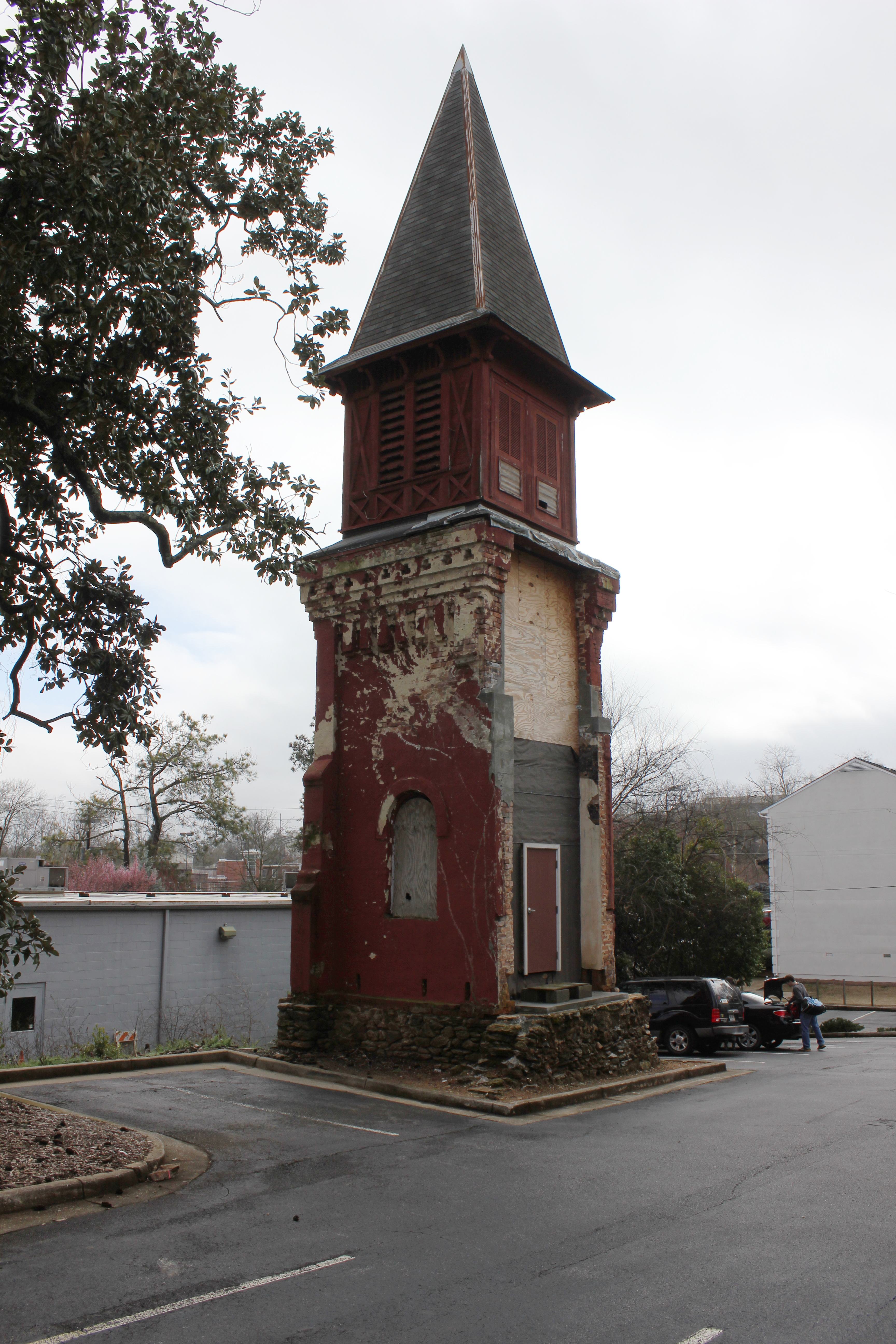 All that remains of St. Mary's Episcopal Church, site of the first R.E.M. show ever (April 5th, 1980).